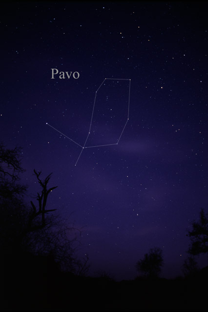 Photography of the constellation Pavo, the peacock